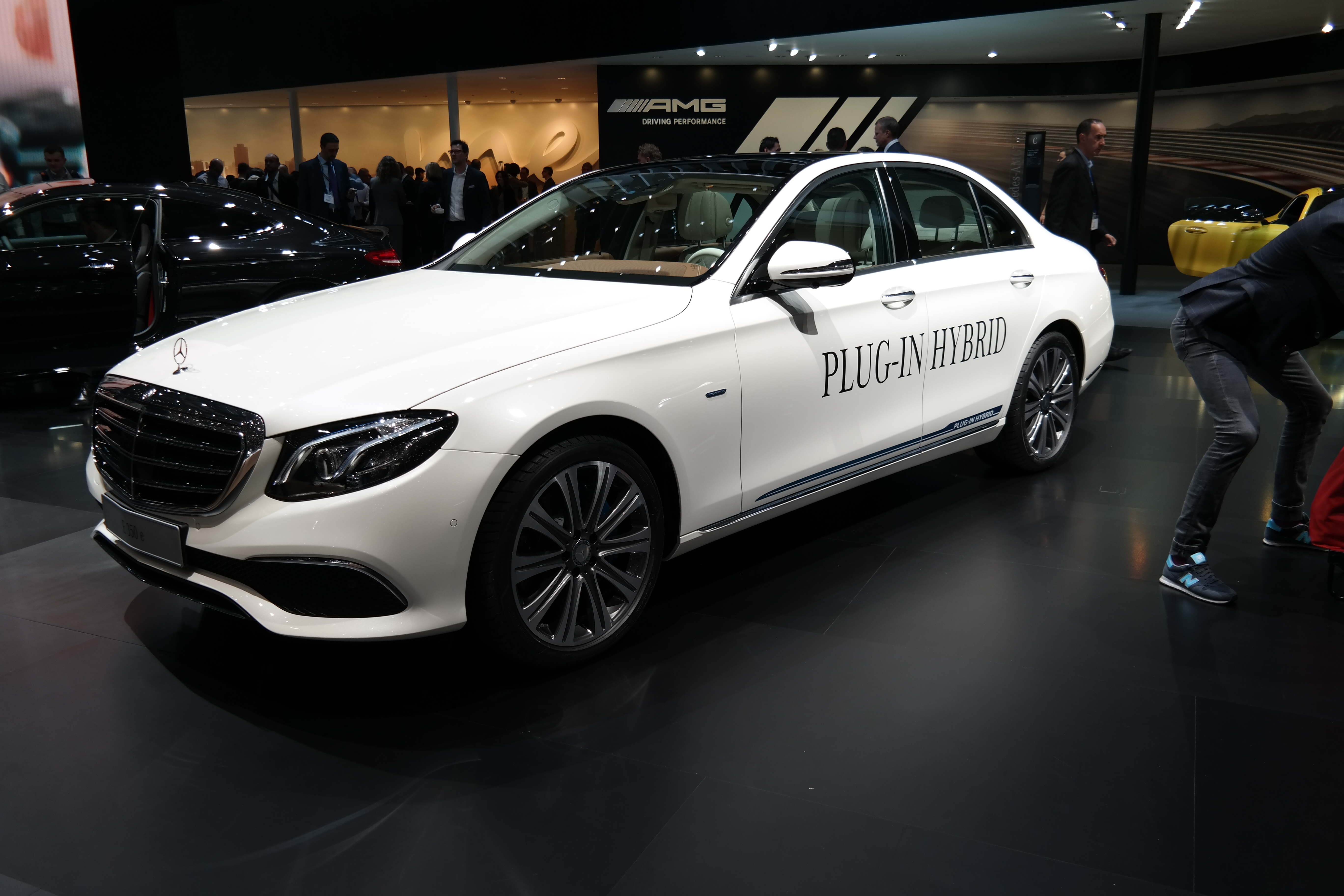 Geneva Motor Show 2016 (photo taken on the first press day)